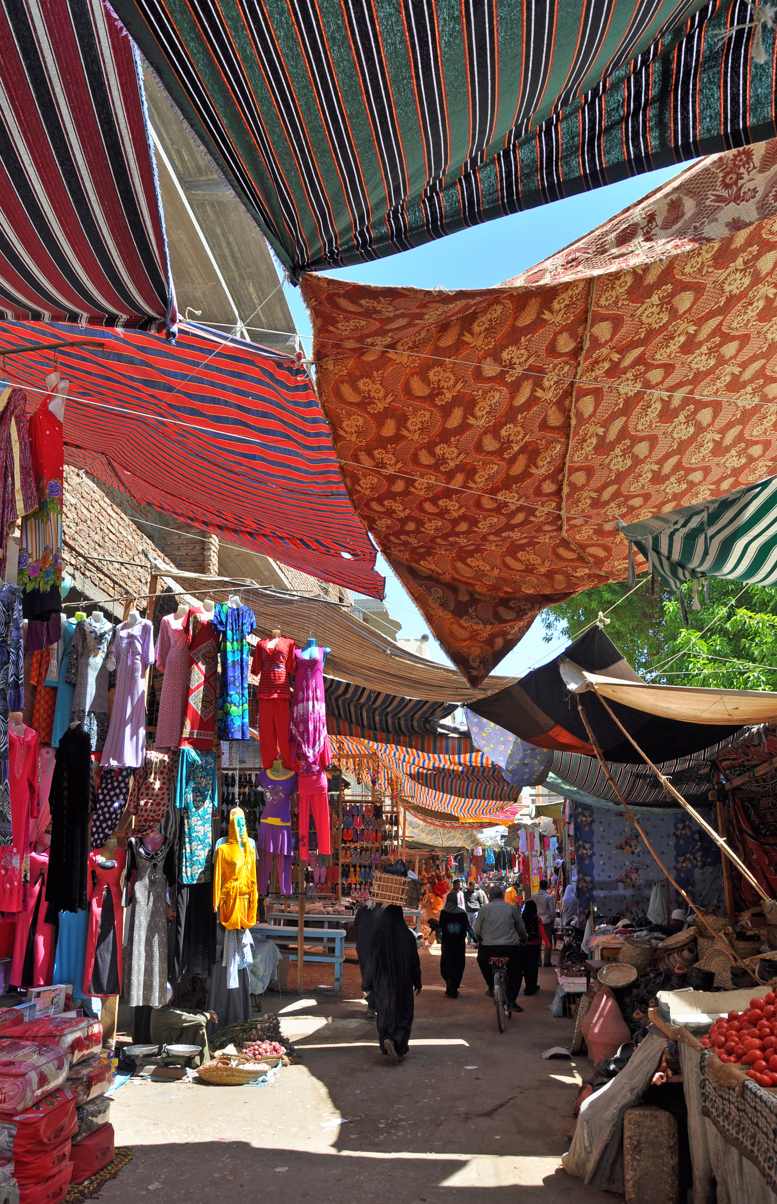 Luxor (Egypt): the souq (open-air market)